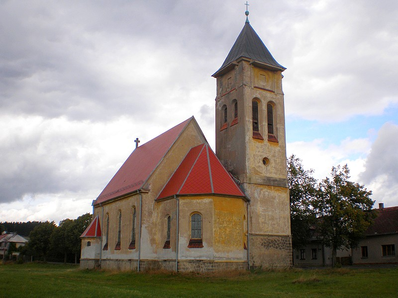 Mokřiny, Cheb District, Czech Republic; church of St. Charles Borromeo